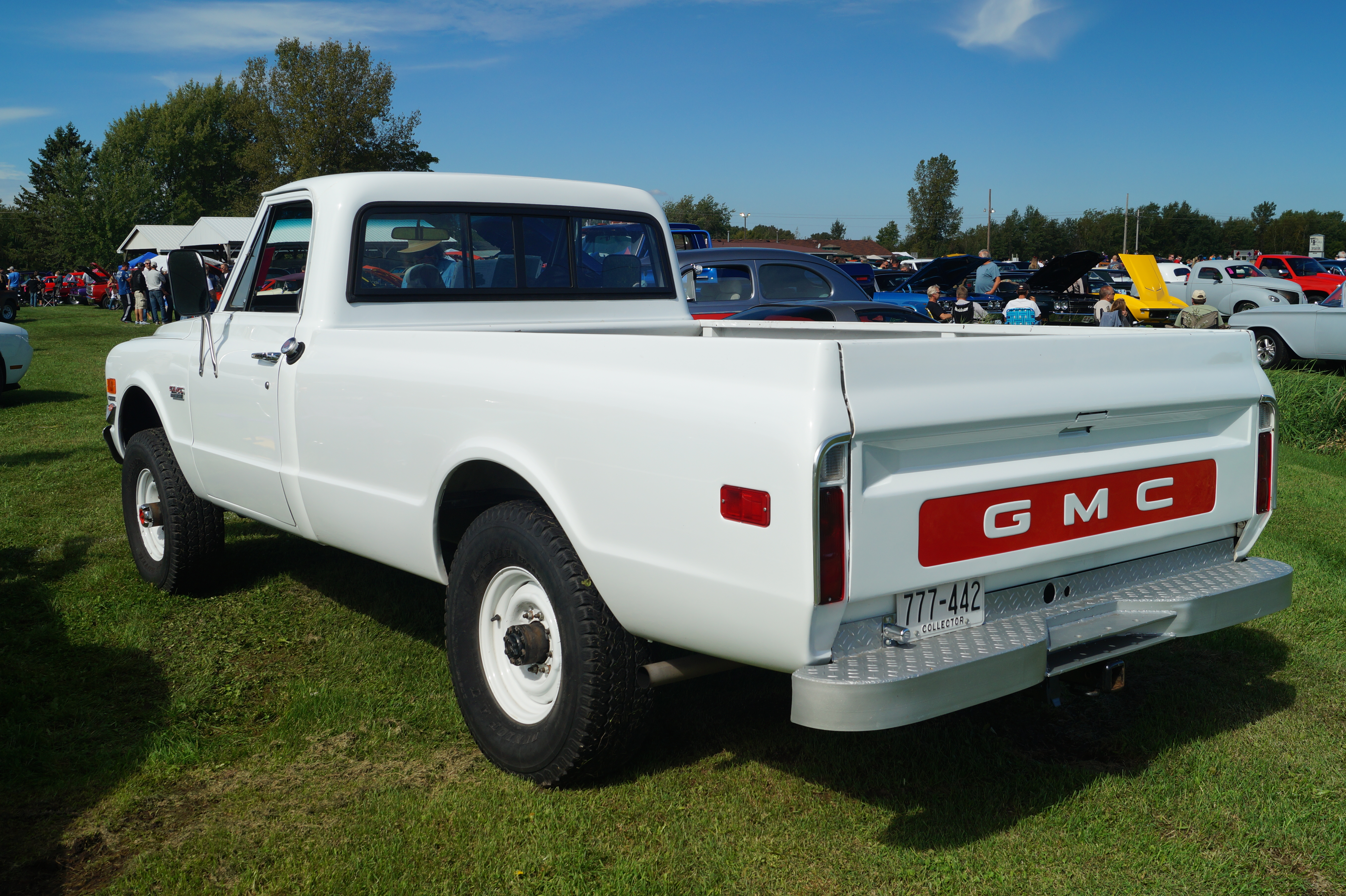 28th Annual Pig Roast & Car Show September 20, 2015 Northern Lights Car Club Blacksmith Lounge Hugo, Minnesota Click here for more car pictures at my Flickr site.